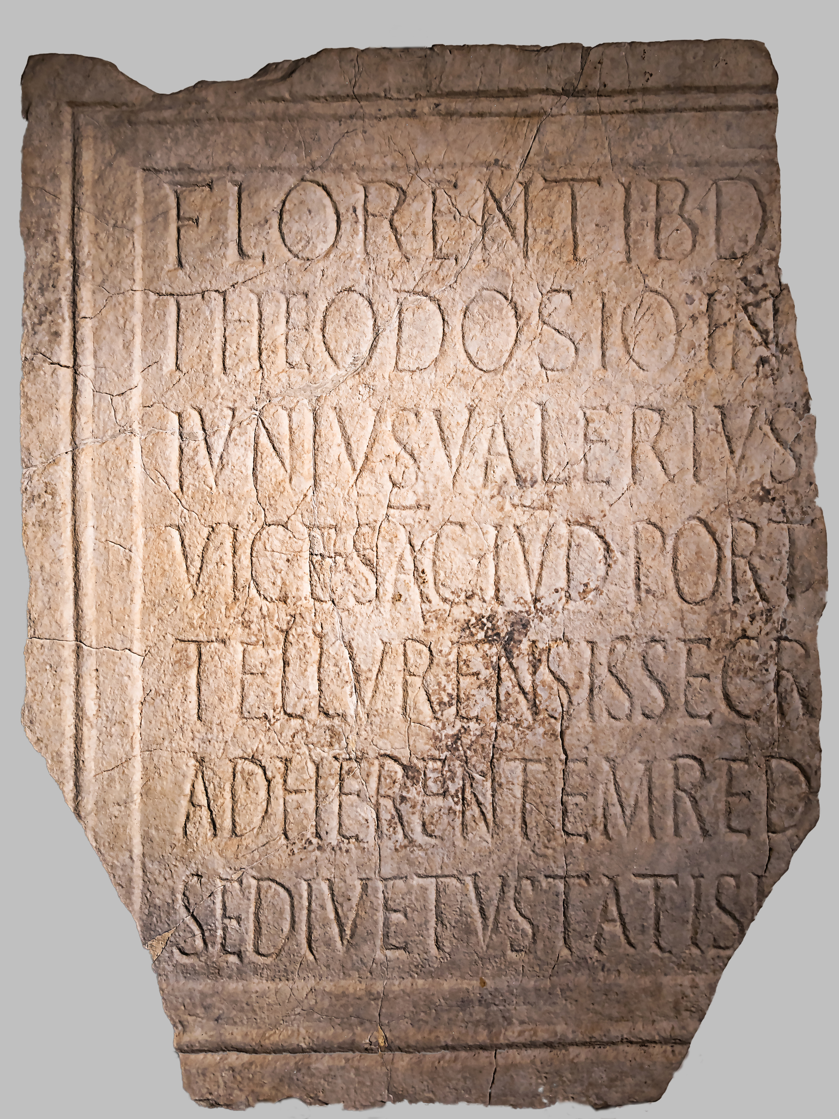 A big slab with a dedication by the urban prefect Iunius Valerius Bellicus in remembrance of some restoration of the urban praefecture seat the Secretarium Tellurense (AD 408 - 423)